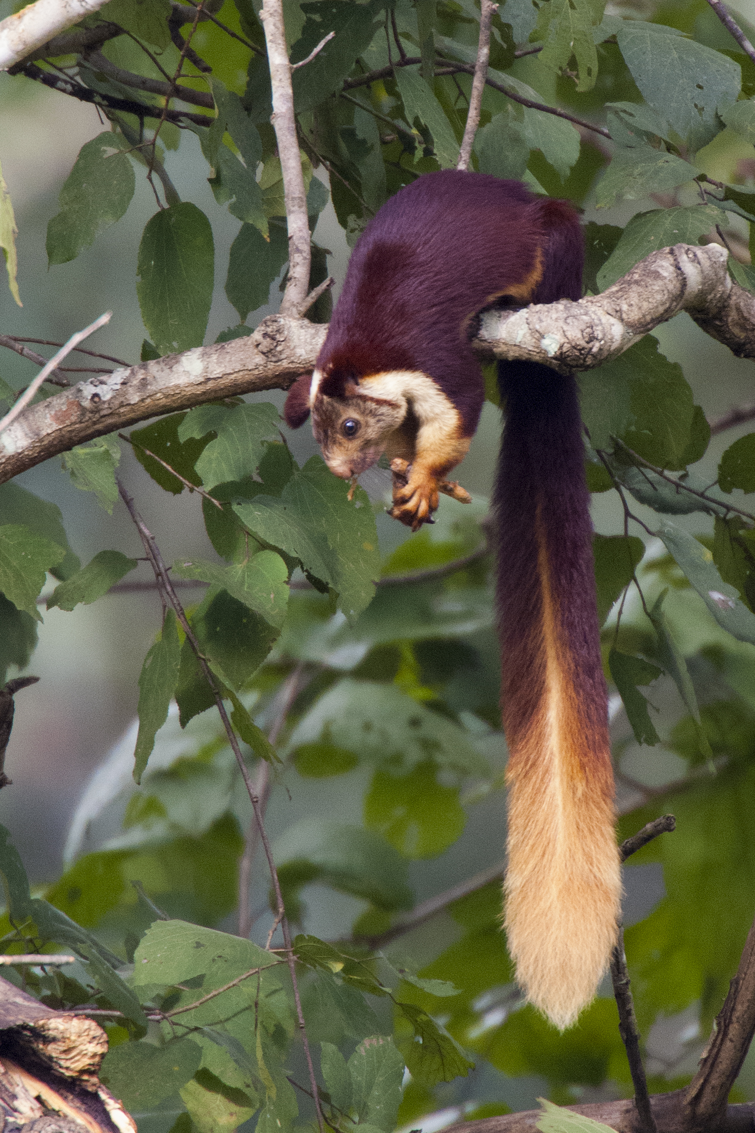 Indian giant squirrel (Malabar giant squirrel) in Bhadra Tiger Reserve, Karnataka